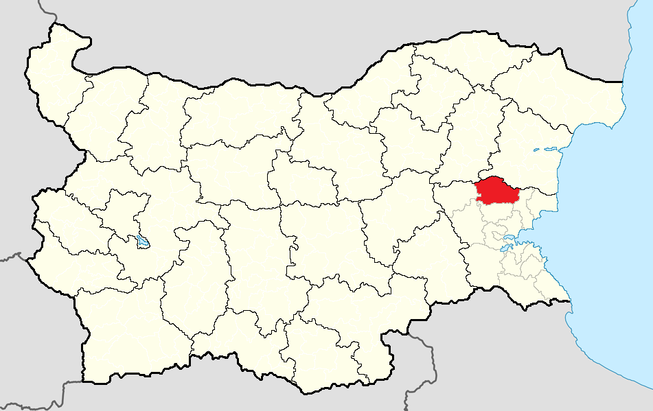 Location map of Ruen Municipality within Bulgaria and Burgas Province Equirectangular projection, N/S stretching 130 %. Geographic limits of the map: N: 44.4° N S: 41.1° N W: 22.1° E E: 28.9° E